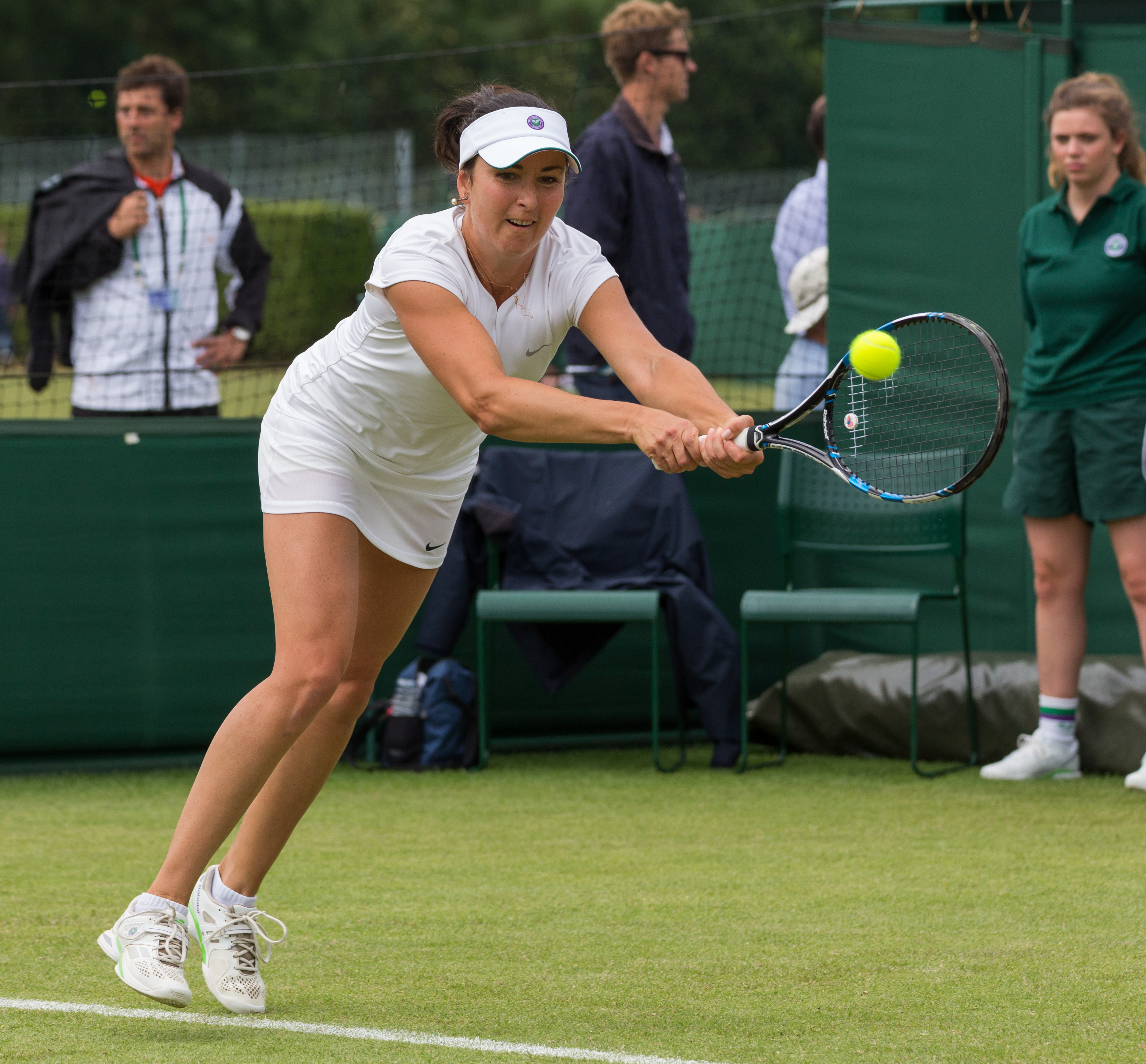 Yuliya Beygelzimer competing in the first round of the 2015 Wimbledon Qualifying Tournament at the Bank of England Sports Grounds in Roehampton, England. The winners of three rounds of competition qualify for the main draw of Wimbledon the following week.